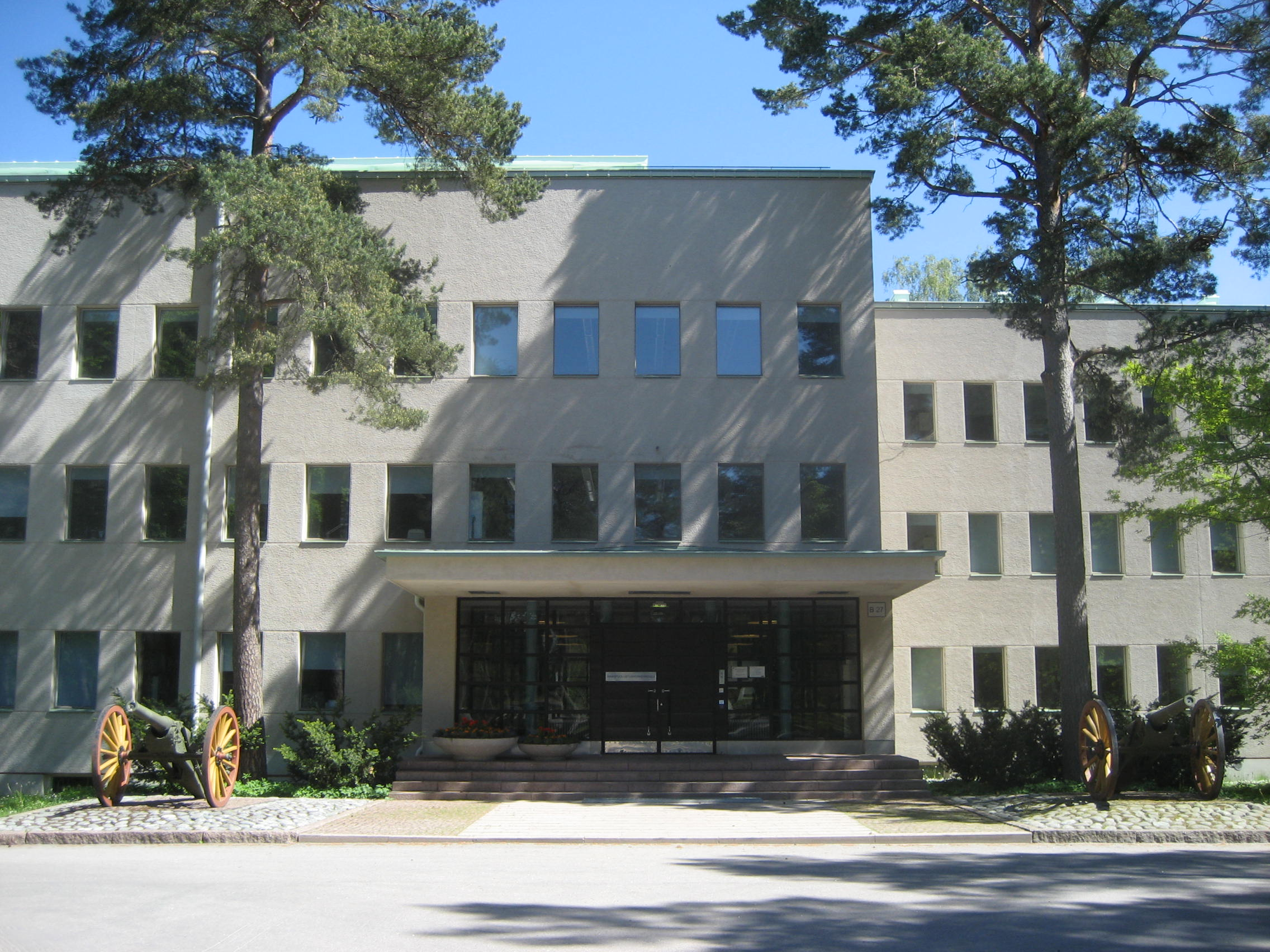 Main Entrance of the National Defence College of Finland.